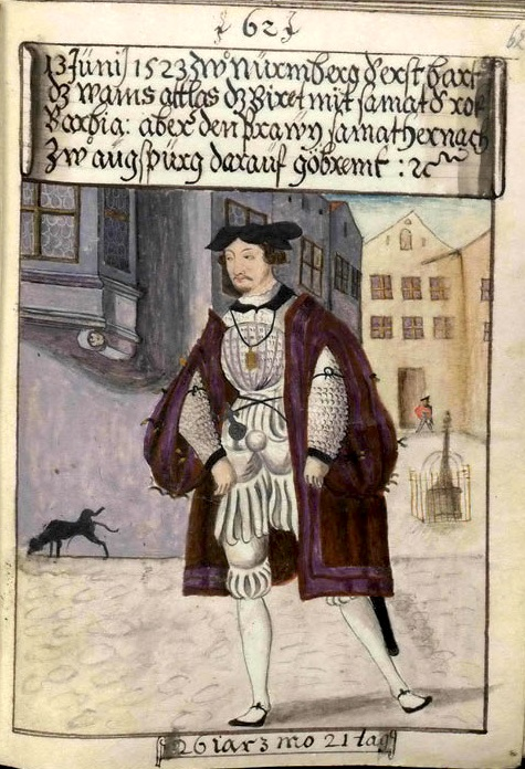 Matthäus Schwarz at the age of 26 (visiting Nuremberg)